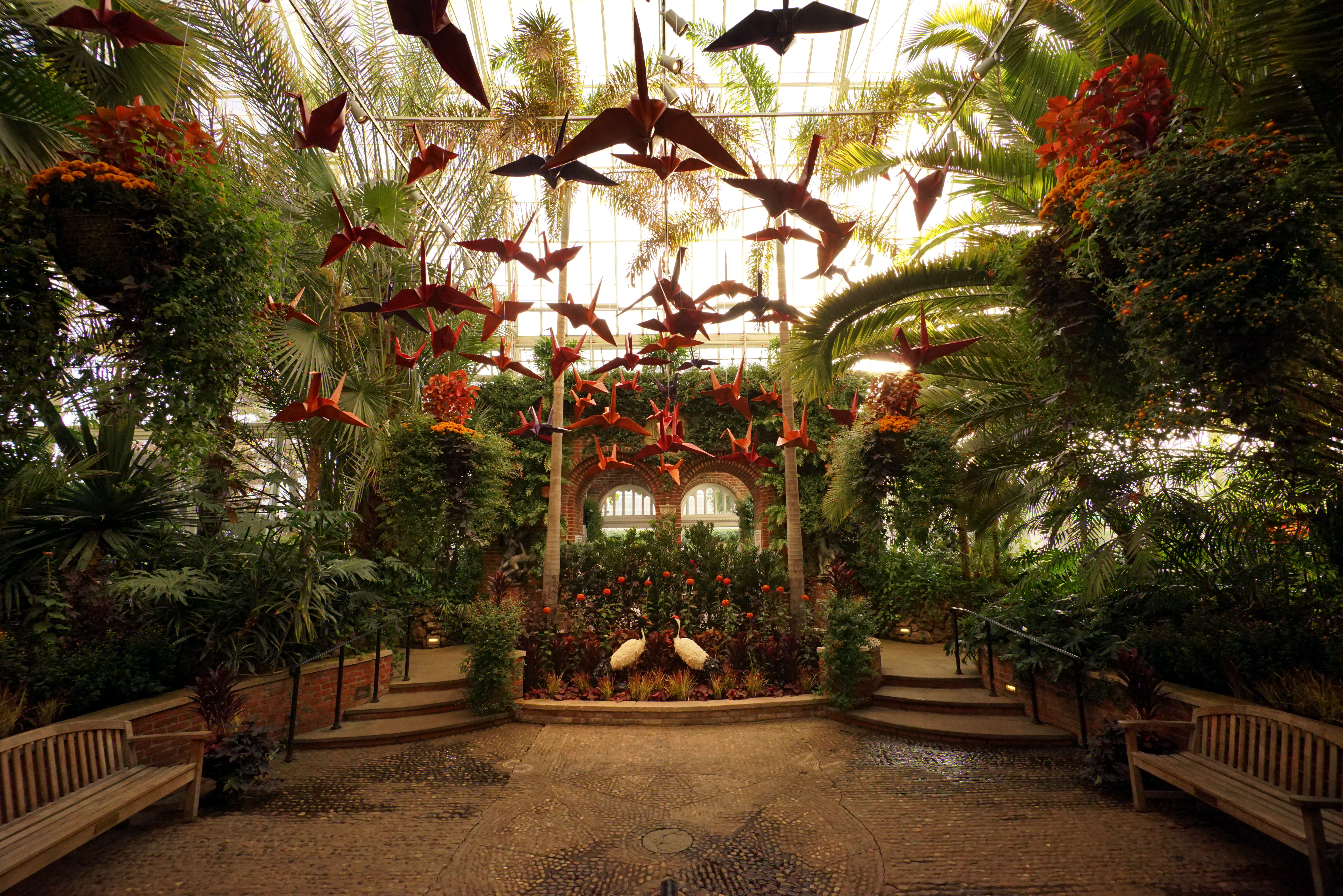 The Phipps Conservatory and Botanical Gardens is a complex of buildings and grounds set in Schenley Park, Pittsburgh, Pennsylvania. Founded in 1893, the gardens serve to educate and entertain the people of Pittsburgh with formal gardens.